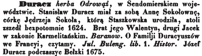 This is a part of the book by Kasper Niesiecki and Jan Nepomucen Bobrowicz, Herbarz polski, Volume 3 (1839) which describes the roots of the Duracz szlachta family